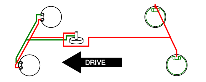 Schematics of Skoda 130 breaks